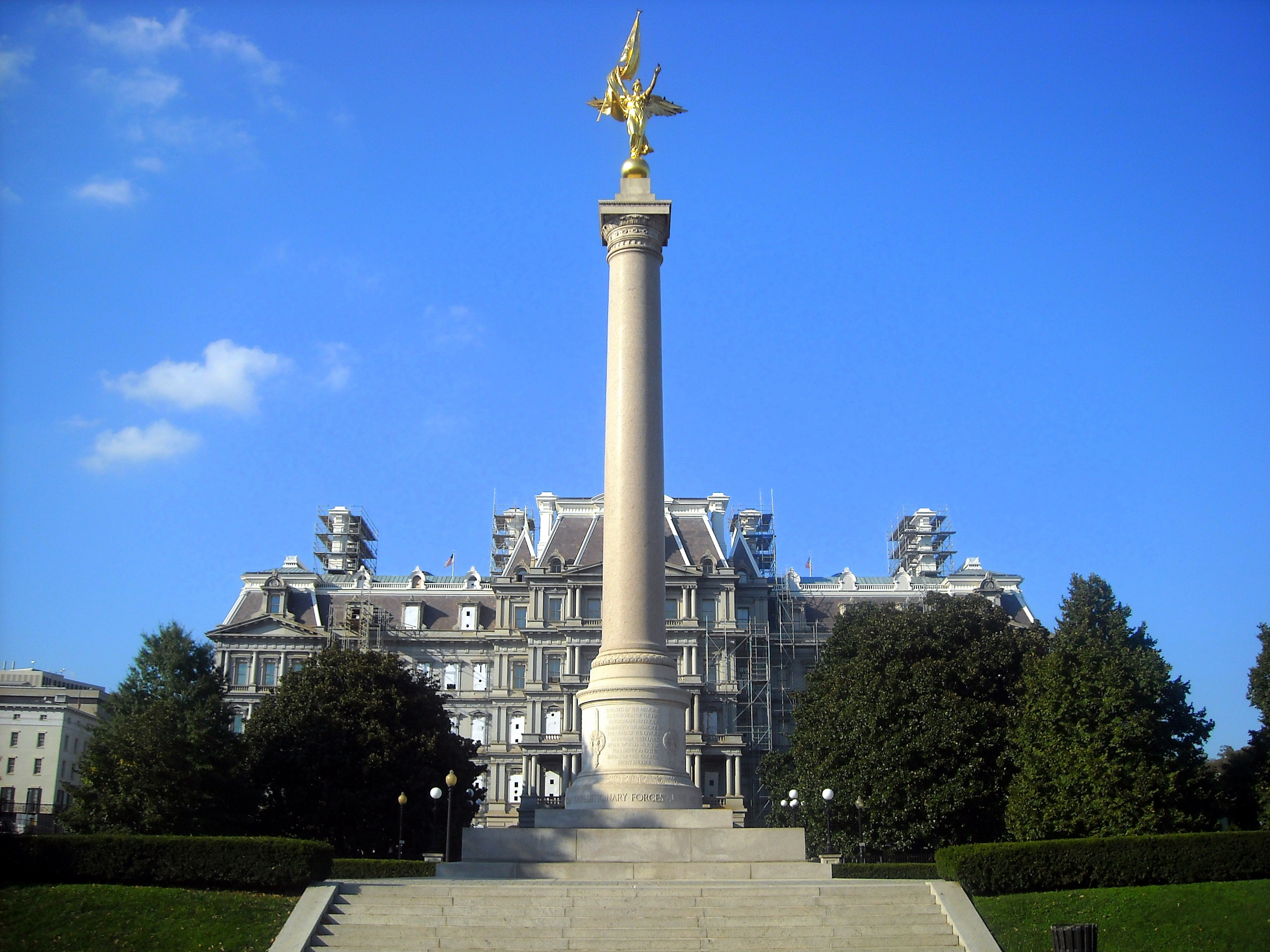 The First Division Monument located in President's Park, Washington, D.C. The Old Executive Office Building is in the background.